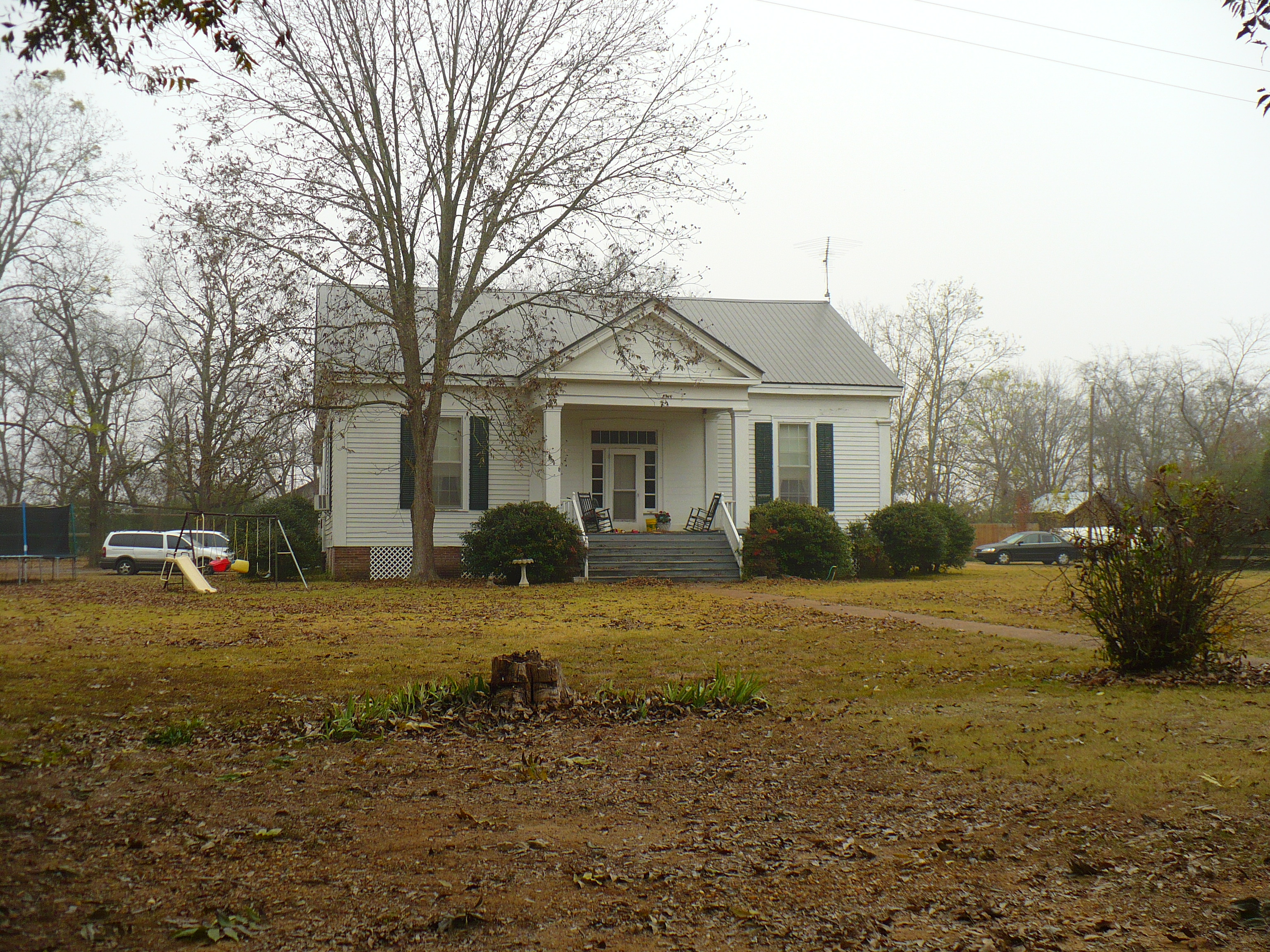 Cedar Crest Farms, a.k.a. Dubose Plantation, near Faunsdale, Marengo County, Alabama. It originally had symmetrical side-wings and full front porches, but these were removed when it was restored.